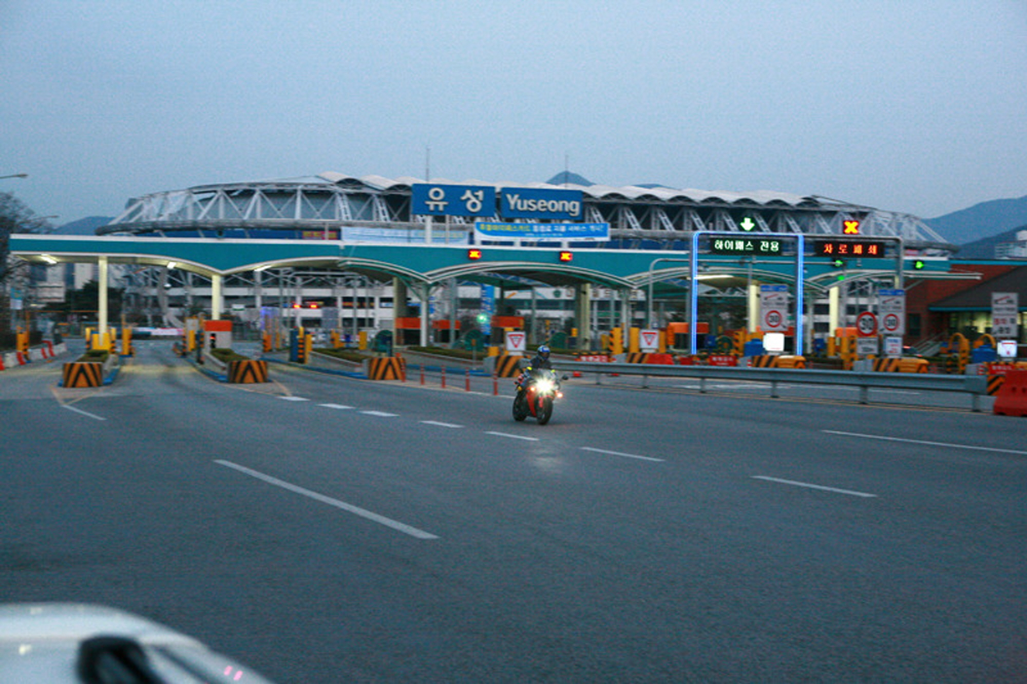 CBR1000RR on the Honam Expressway Branch Yuseong Interchange Tollgate